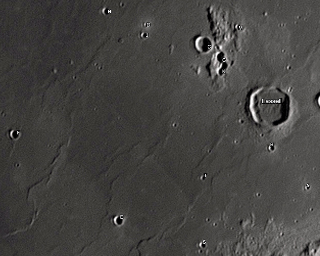 Lassell lunar crater as seen from Earth with satellite craters labeled